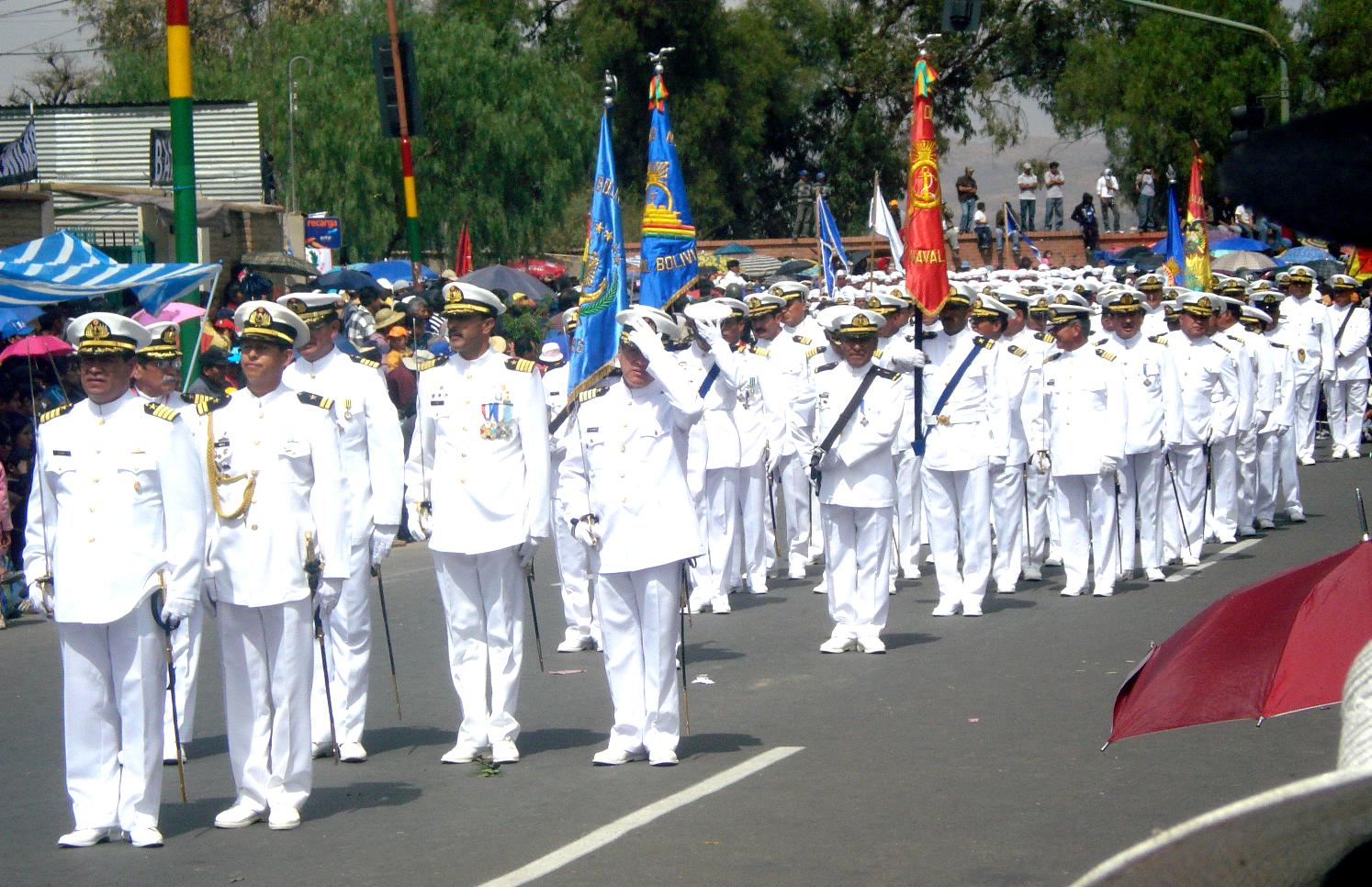 Naval officers or armed march in Cochabamba in Bolivia during the military parade.